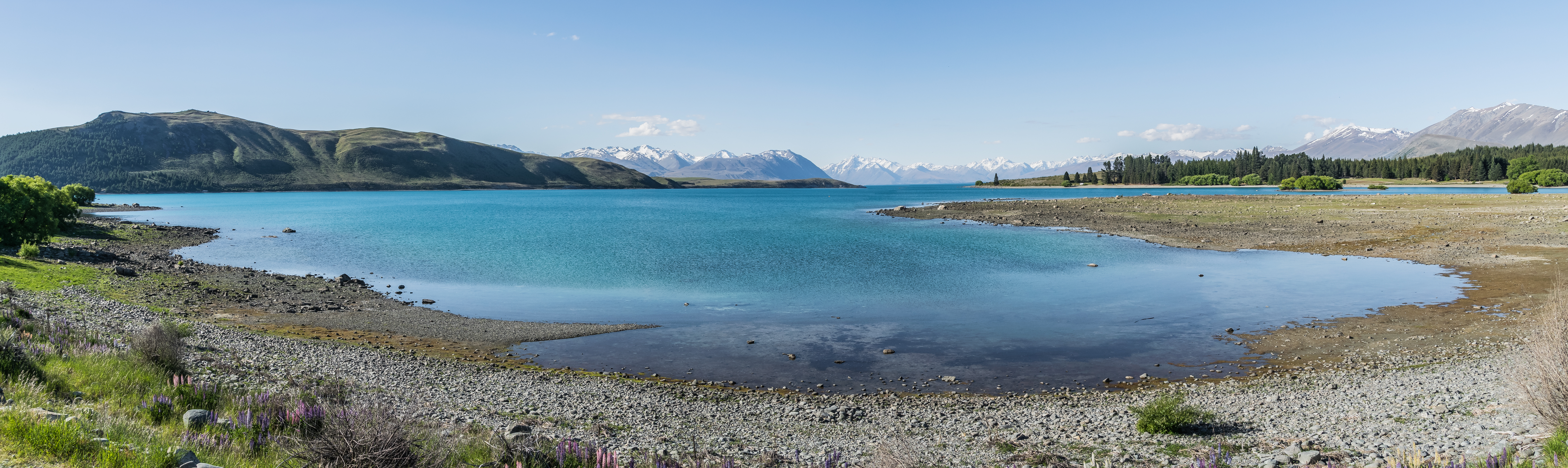 Panoramic view of Lake Tekapo in Canterbury Region, South Island of New Zealand